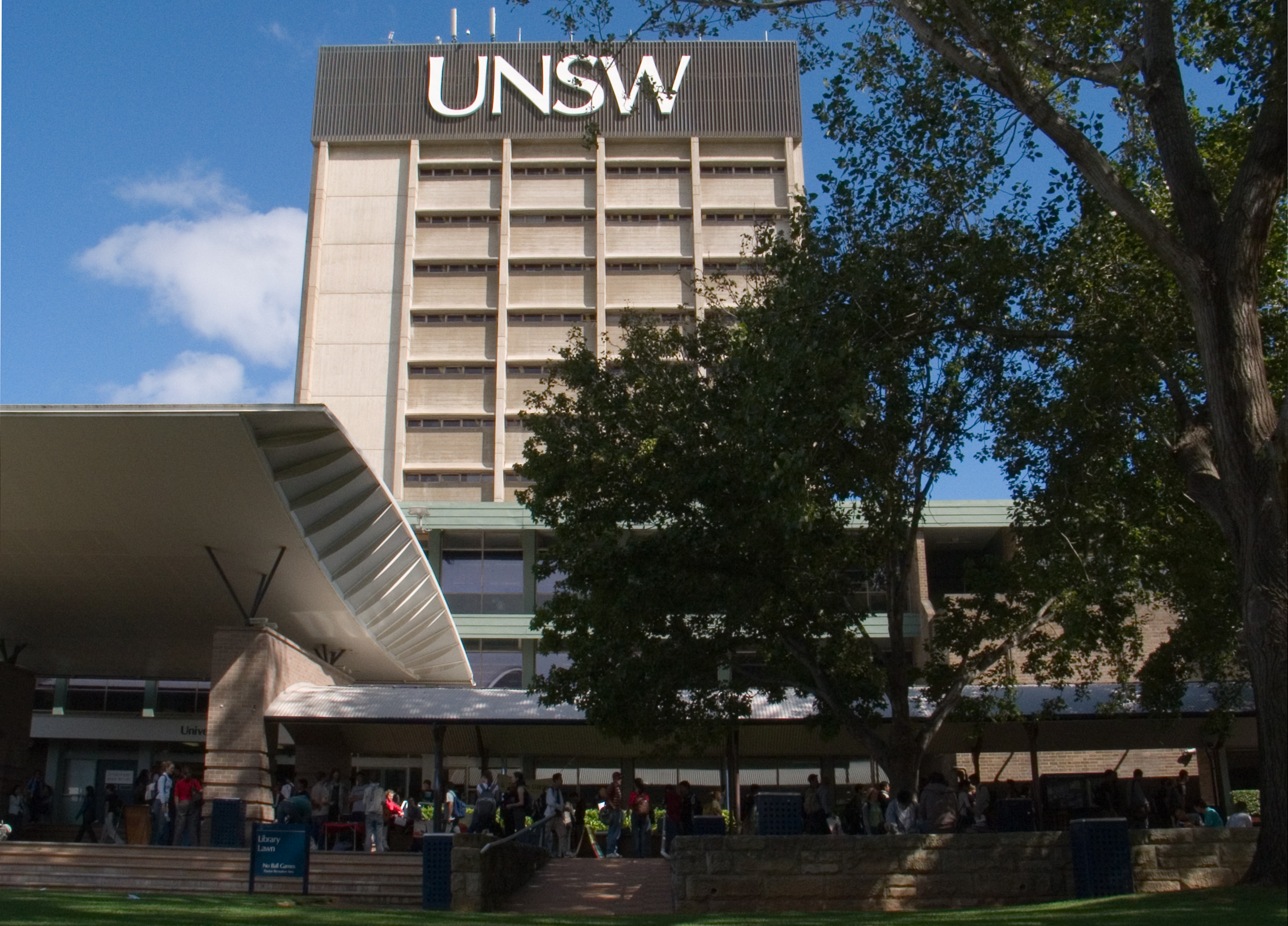 The library building at the University of New South Wales.